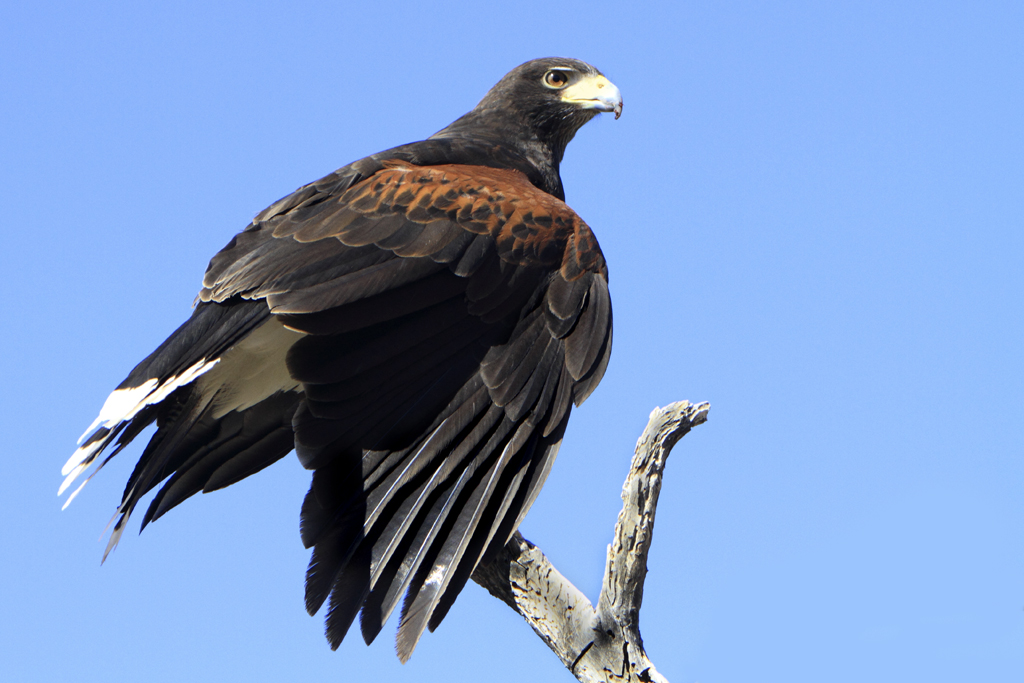 The Harris's Hawk is famous for its remarkable behavior of hunting cooperatively in "packs", consisting of family groups. Most raptors are solitary hunters. Reference